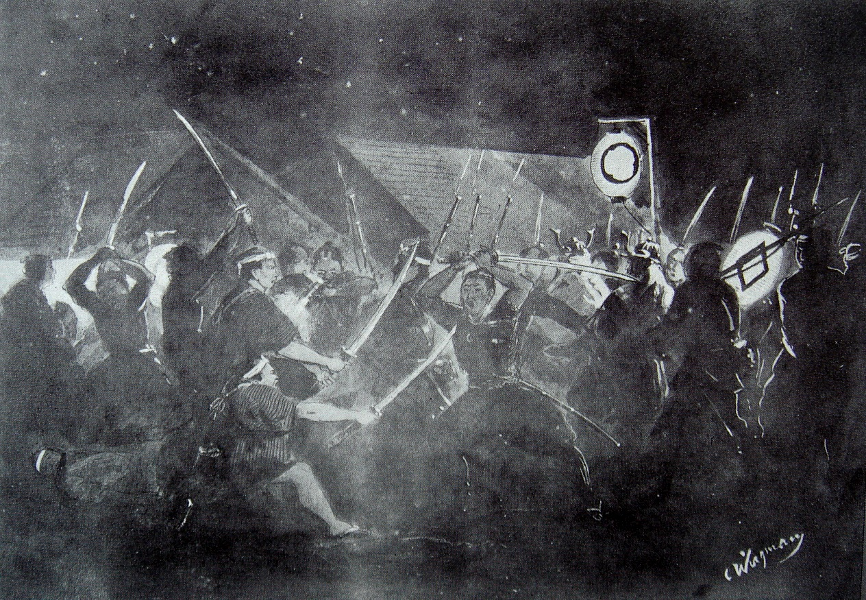 Attack Of The British Legation in Tozenji, Edo, July 5, 1861. Drawing by Charles Wirgman, photographed by Felice Beato.